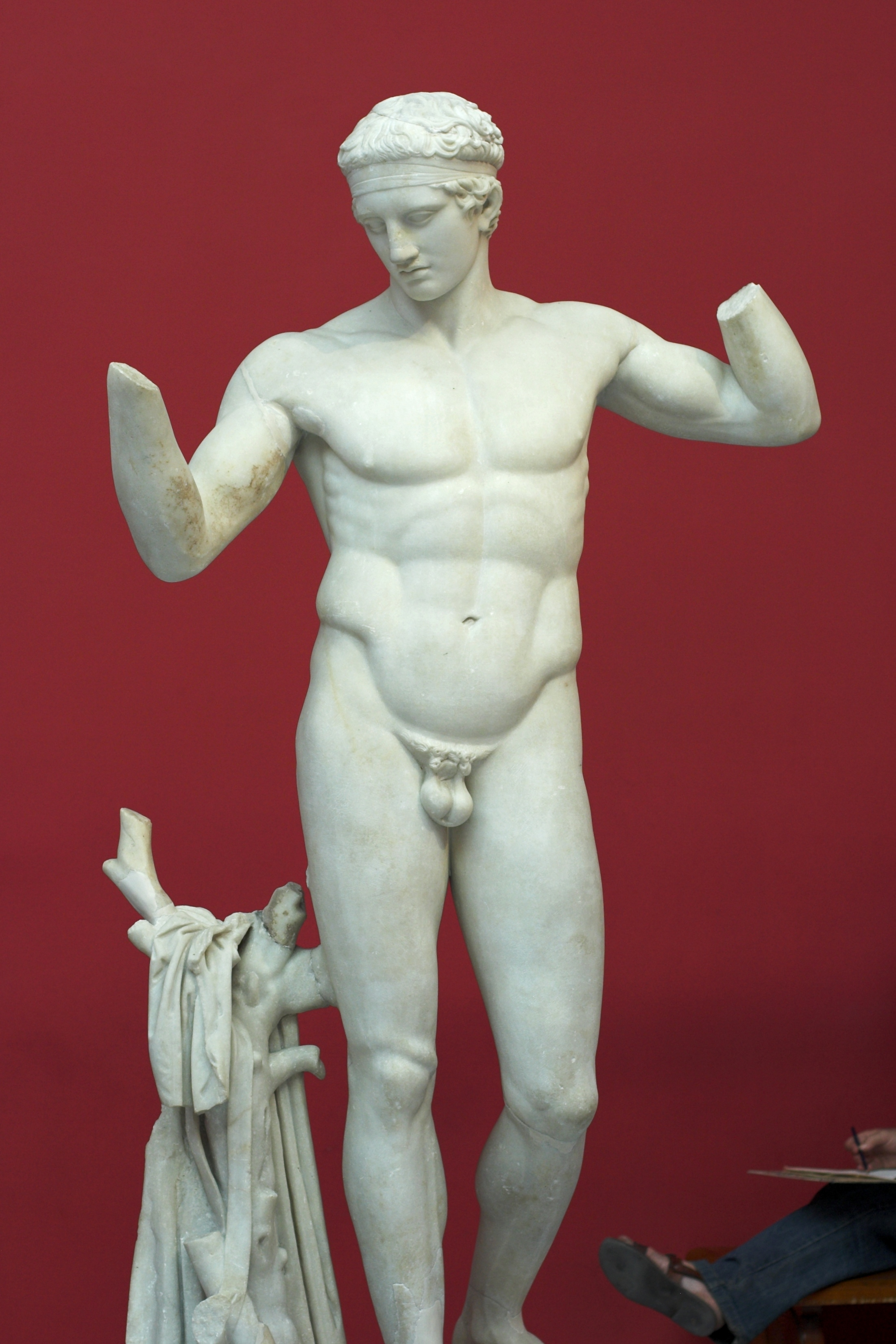 Diadoumenos, thus winning athlete. The island marble from around 100 BC is a copy of the famous statue of Polykleitos, ca 420 BC. Finding: Delos, House of Diadoumenos. National Archaeological Museum of Athens N1826. (Pillar is about appendix of copyist.)